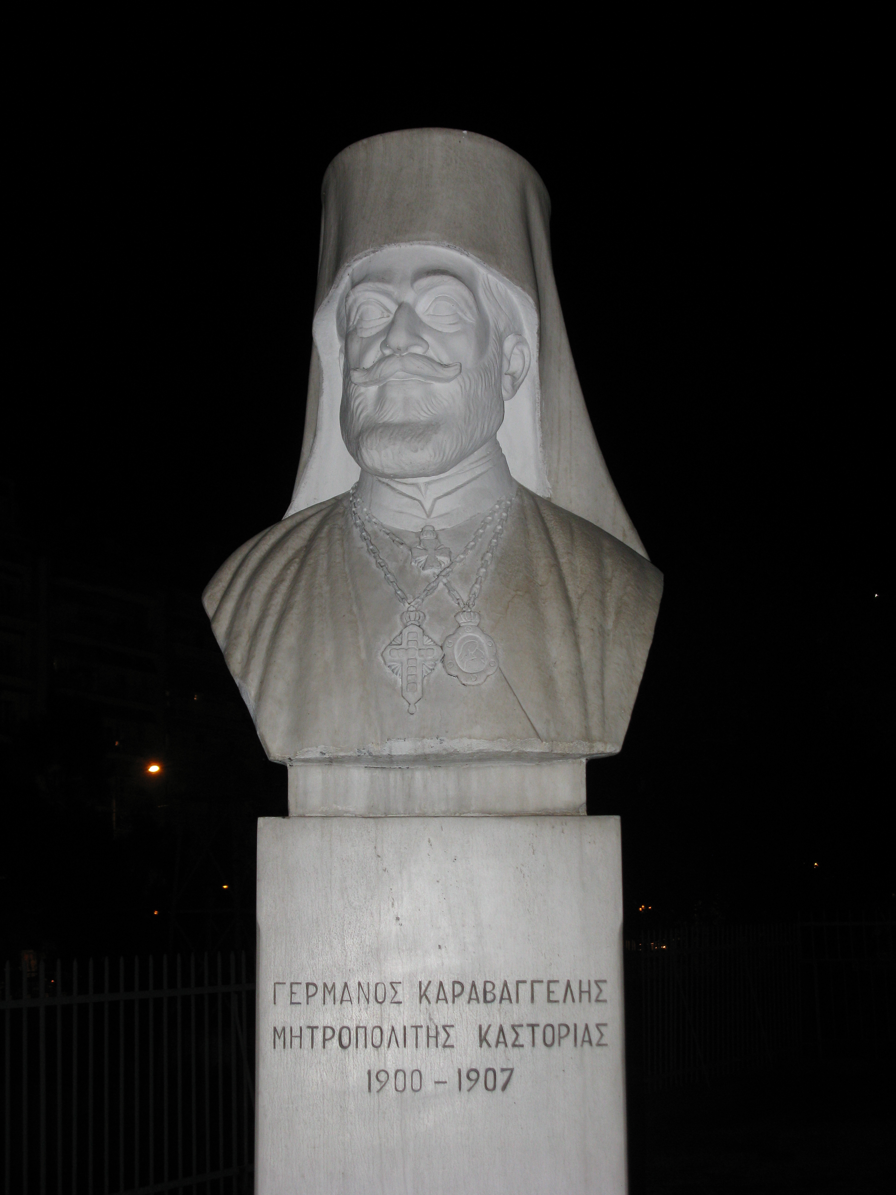 Germanos Karavangelis (1866-1917) 1900-1907: he was the Metropolitan Bishop of Kastoria